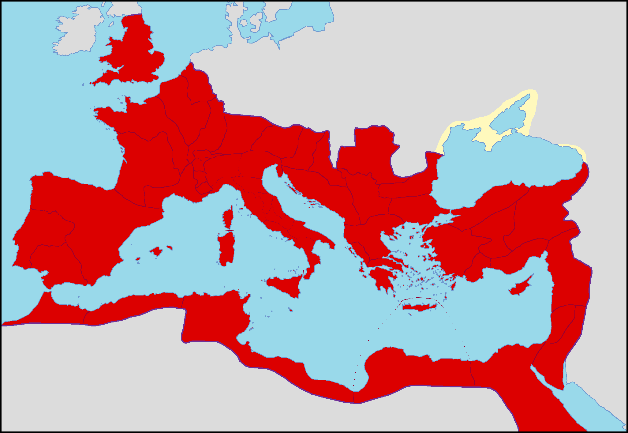 Map of the Roman Empire in 120 AD